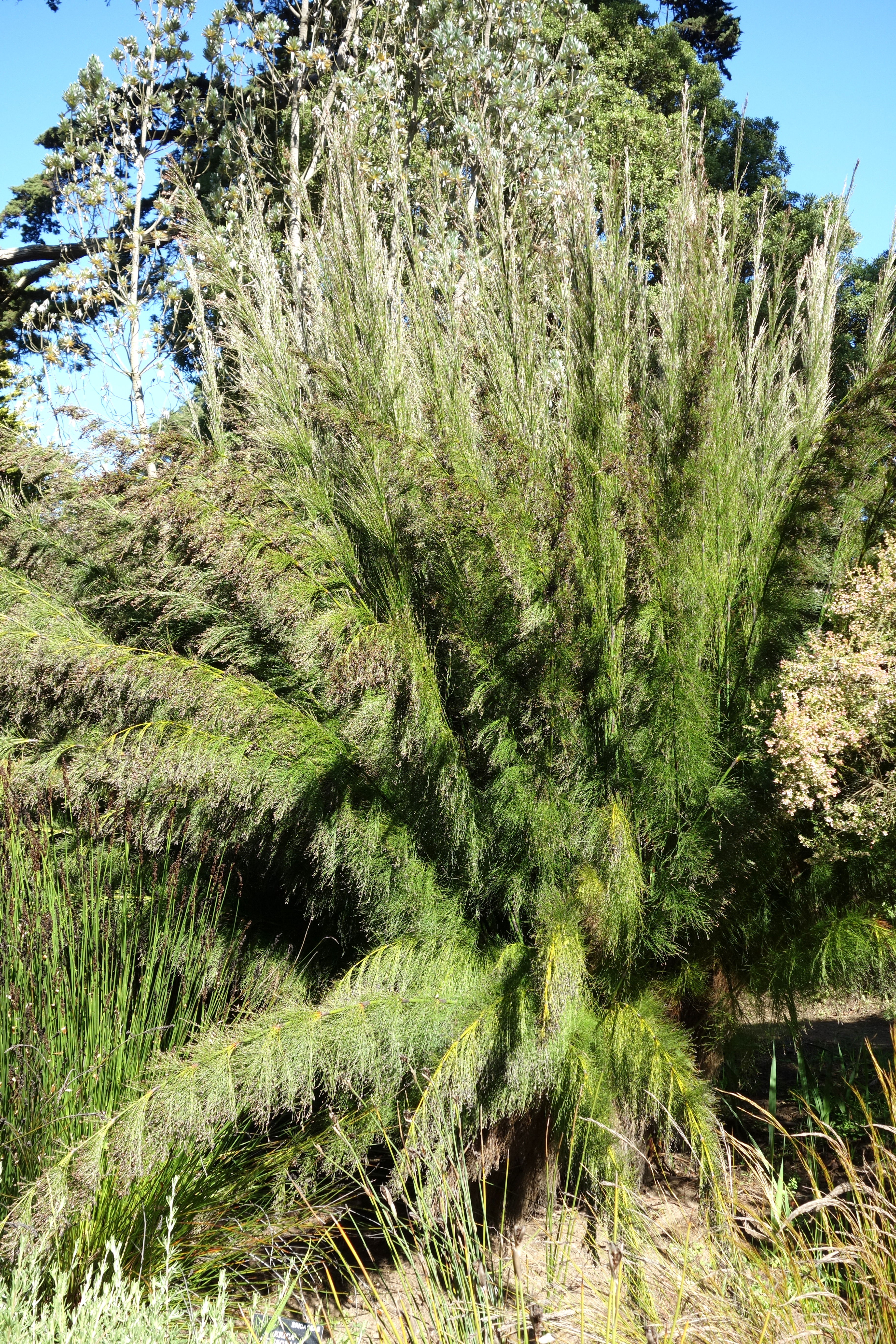 Botanical specimen in the San Francisco Botanical Garden, San Francisco, California, USA.